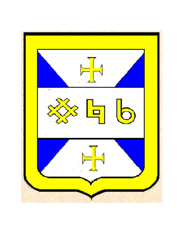 Orlande de Lassus armories